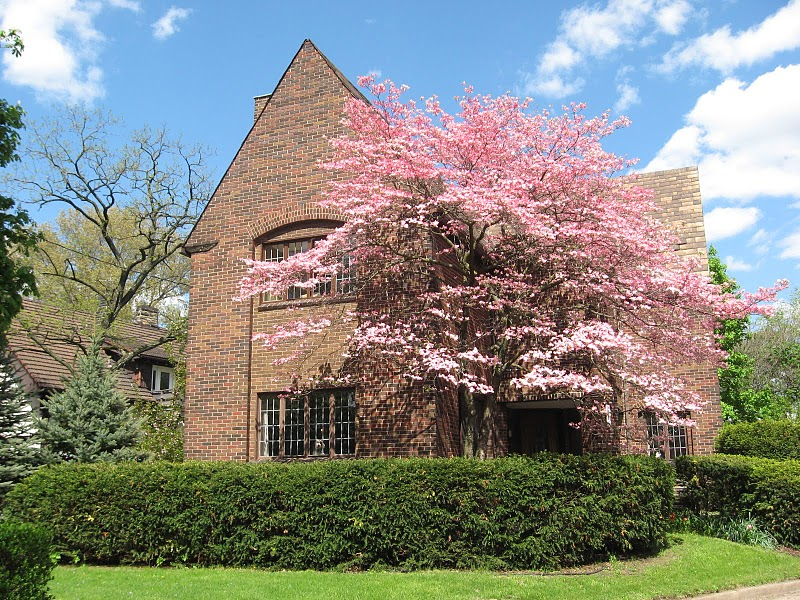 This is one of the 2 houses created by Frederick Scheibler for A.Q. Starr. This house was the principle residence of Billy Conn the fighter